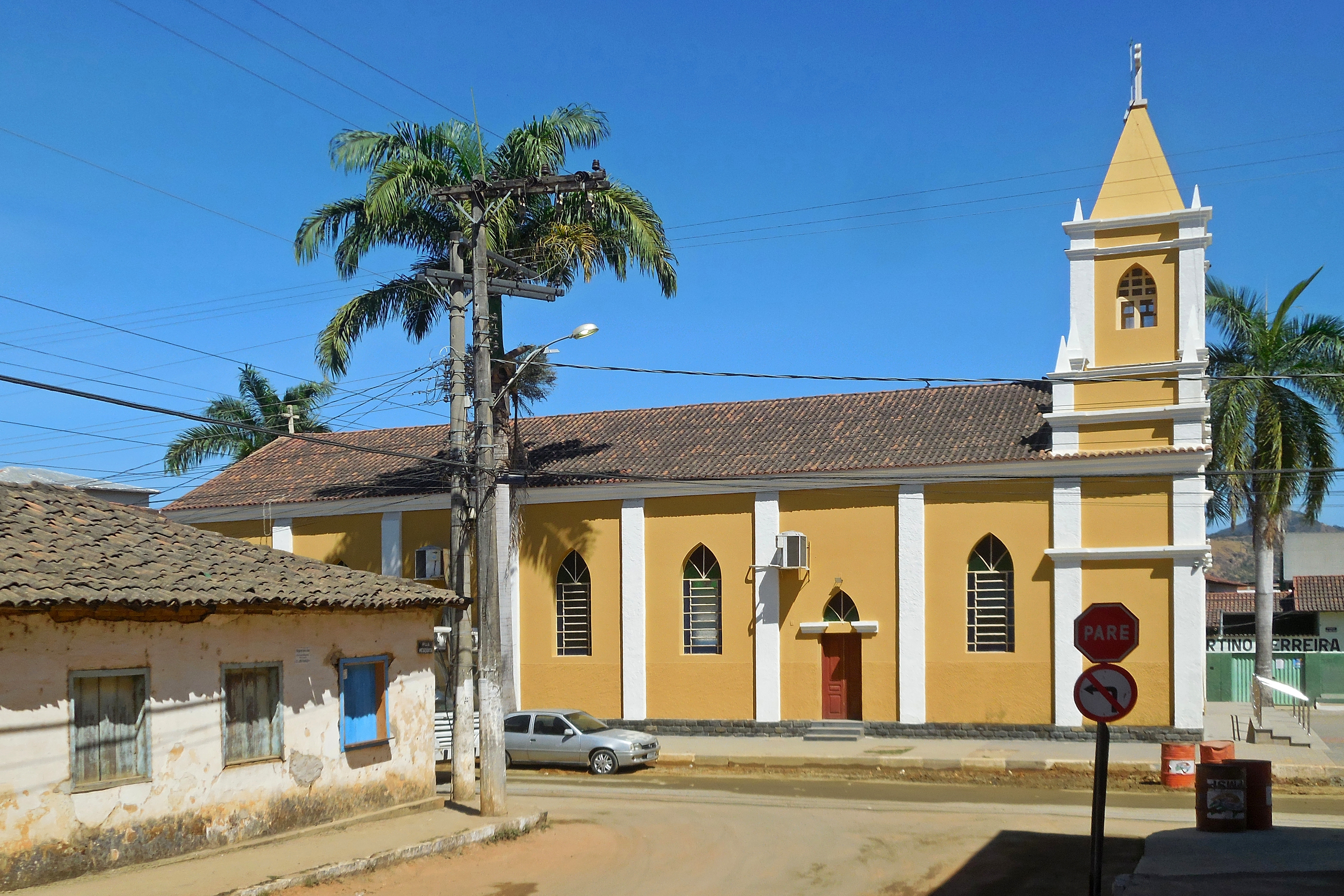 Left side of the Santana Matriz Church and surrounding aspect, in Santana do Paraíso, Minas Gerais, Brazil. Cultural property Q67025145, Santana do Paraíso, Minas Gerais, Brazil Q67025145, P727